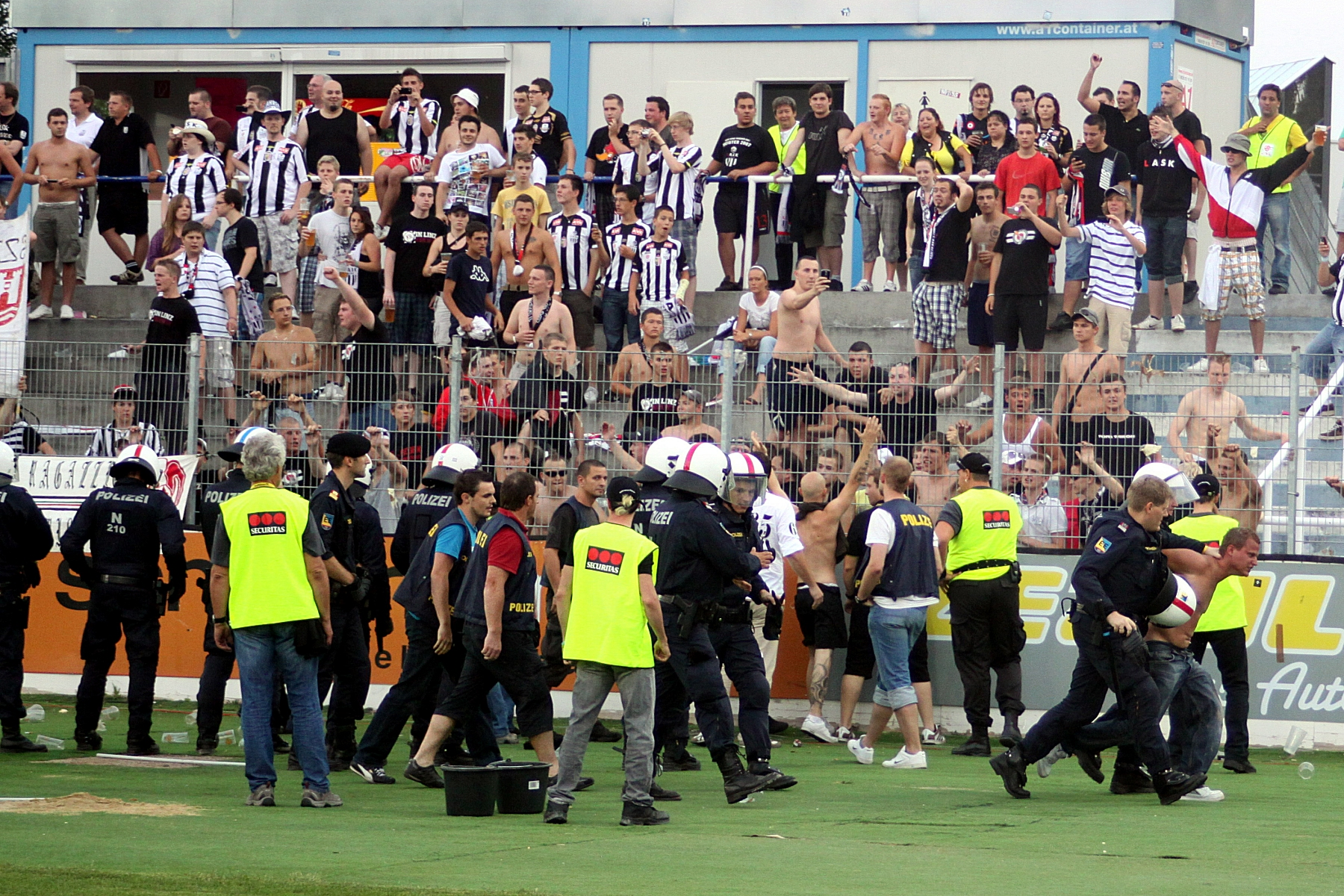 SC Wiener Neustadt vs LASK Linz 5:0 (5:0) – The foto shows „Fans“ of LASK Linz.